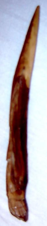 Instrument used formerly in agriculture to extract corncob from its envelope.